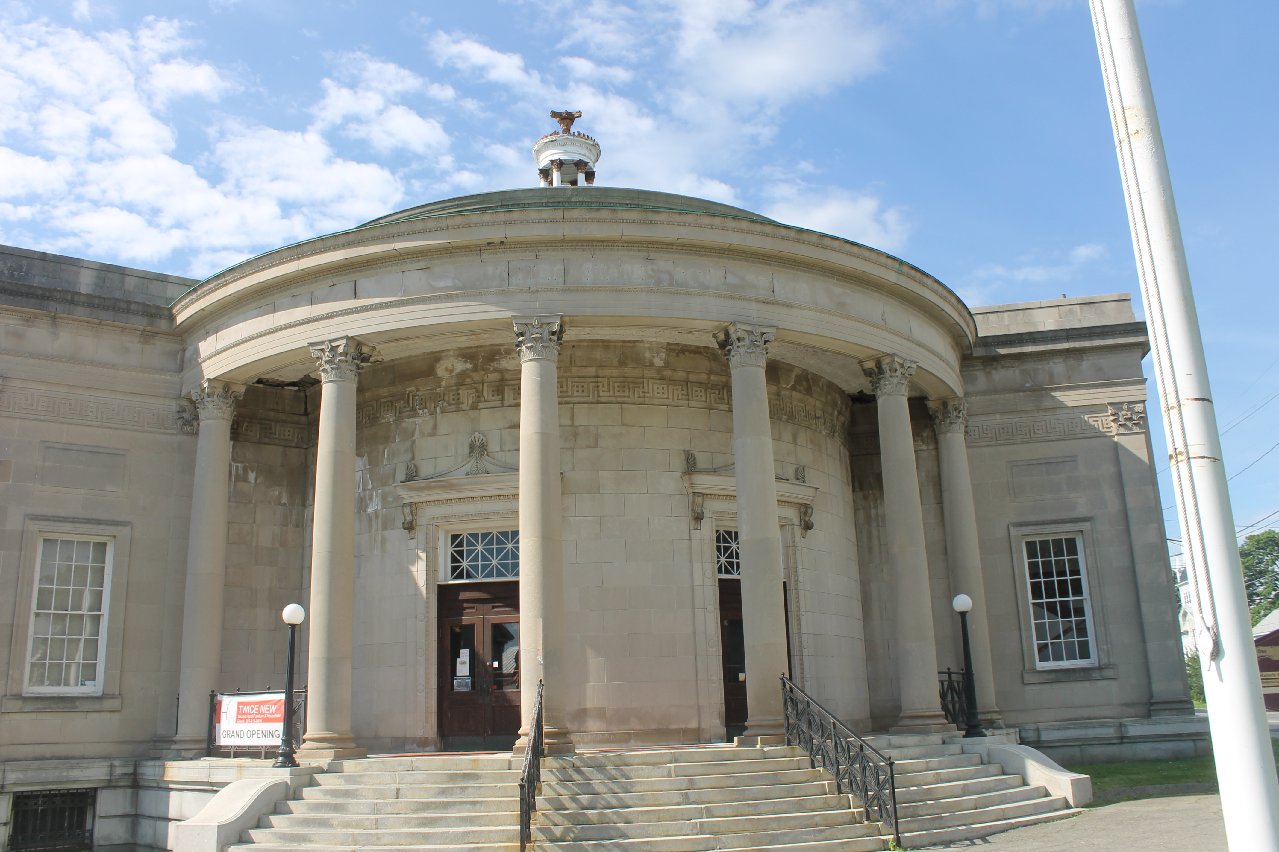 I took photo with Canon camera of One Post Office Square multiple-use building in Waterville.